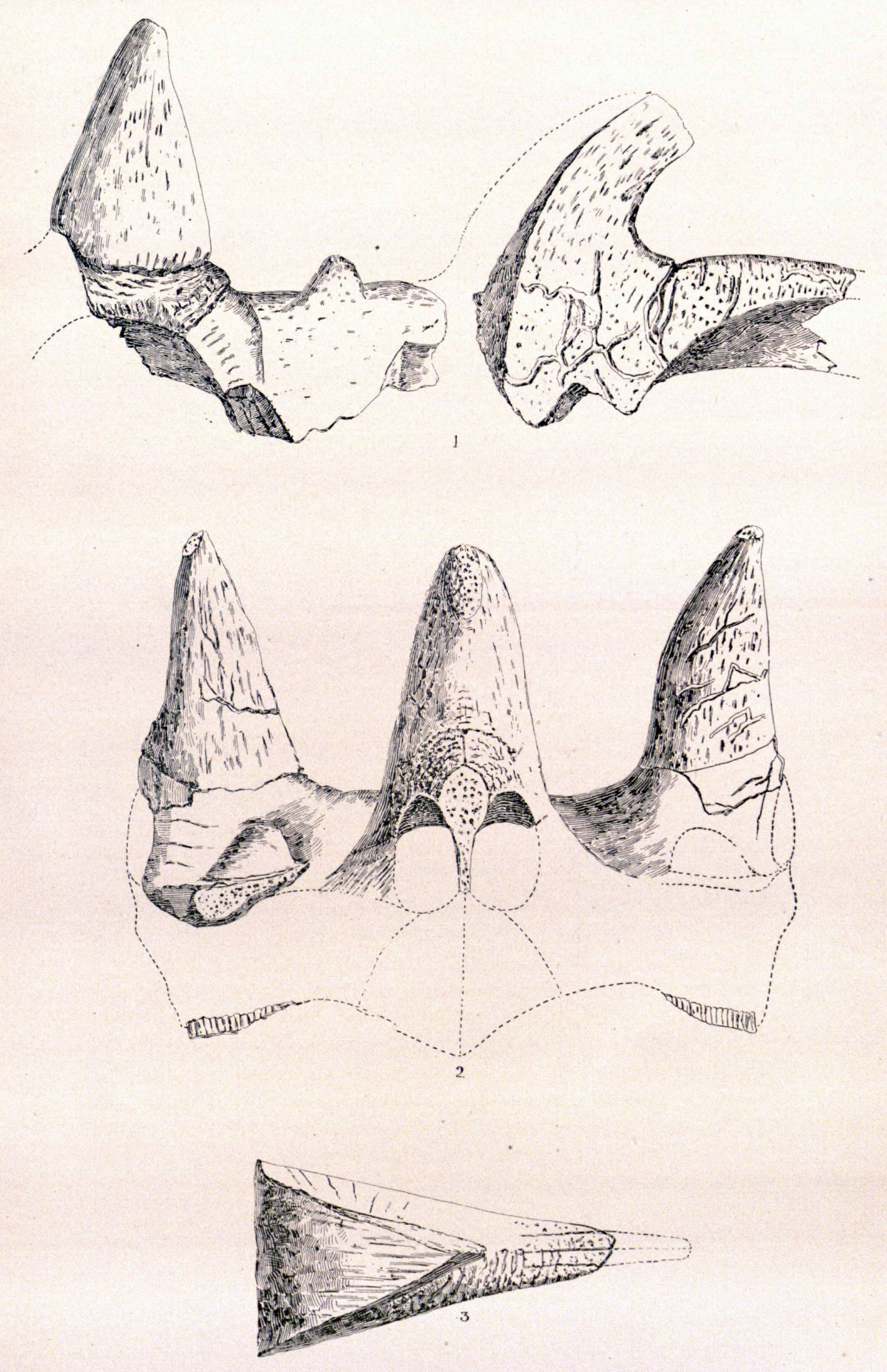 Monoclonius recurvicornis, partial skull (AMNH 3999) in lateral view (1), front view of supraorbital and nasal bones (2), and dorsal view of the nasal bones and horn (3).